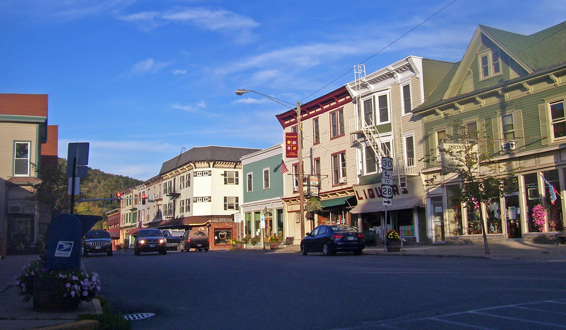 Downtown Margaretville, NY, USA